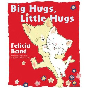 Illustrated Childrens Book, written and illustrated by Felicia Bond